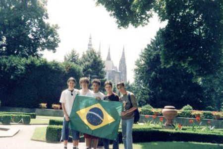 Equipe brasileira do IYPT 2006.